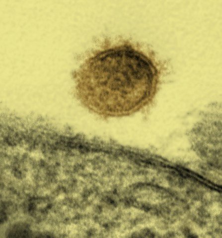 A Sin Nombre virus particle shown budding from a Vero cell. This virus causes hantavirus pulmonary syndrome in North America. Credit: NIAID